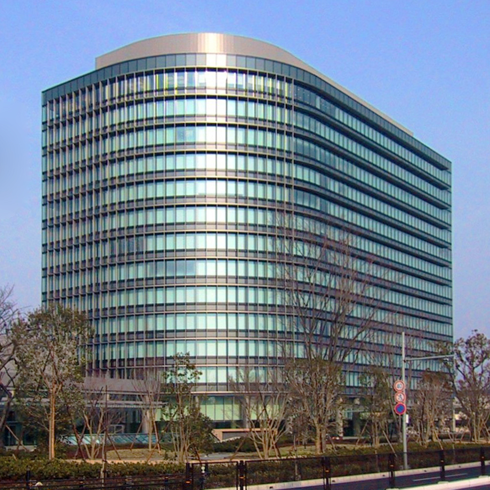 The new headquarters of the Toyota Motor Corporation, opened in February 2005 in Toyota City.